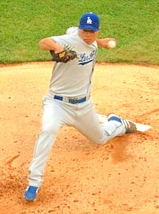 Hong-Chih Kuo in 2007